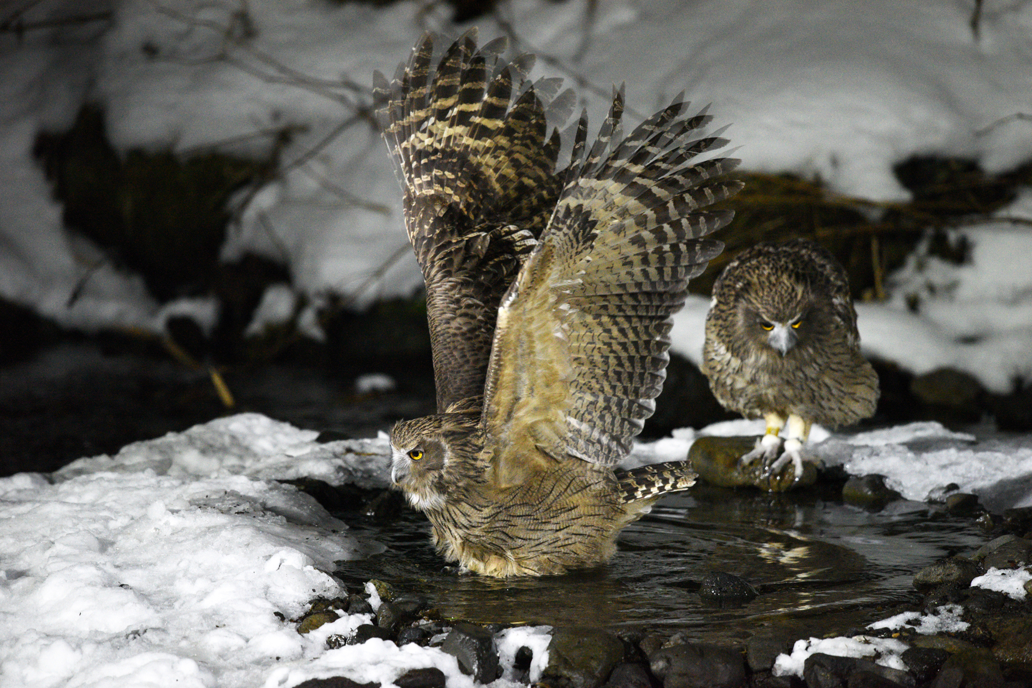 A couple of Blakiston's fish owls in Rausu, Shiretoko, Hokkaido, Japan. The male was catching a fish. This male won a battle against an old male, which had lived there, earlier in this year. He and a daughter of the old male became a new couple. During this transition period, the owls came out rather irregularly, but now they come out as frequently as the days of the old couple.